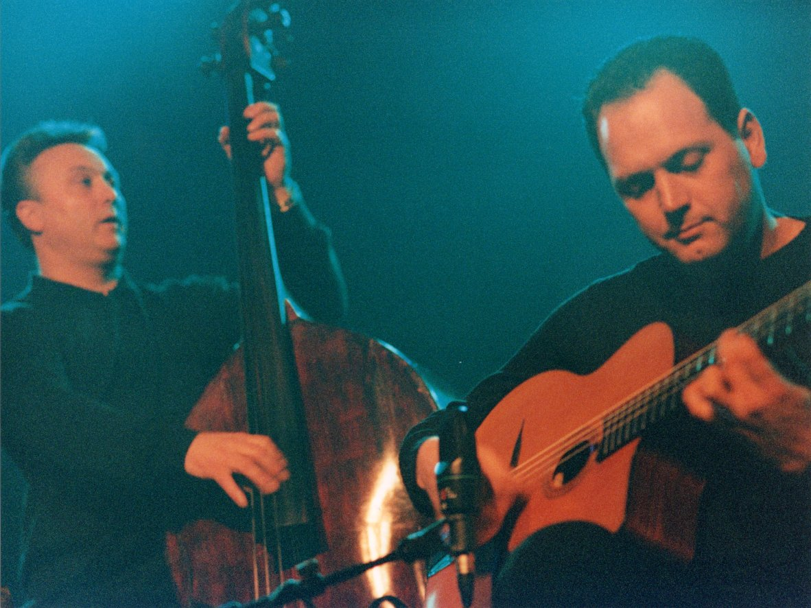 Nonnie and Stochelo Rosenberg of the Rosenberg Trio (gypsy jazz trio) on stage at a show in the Netherlands, 2002 (Tony Rees photograph)